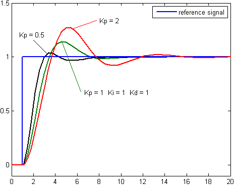 Change of response of second order system to a step input for varying Kp values. Prepared for use in PID controller article.